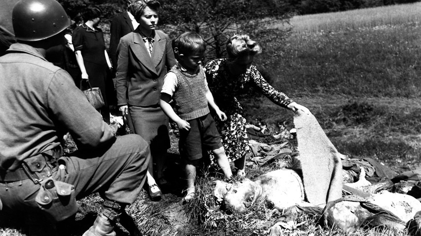 German child with woman gazes at body of one of the 800 murdered Russians, Poles, and Czechs whose bodies were exhumed near Namering on order of military government of U.S. 3rd Army. Victims were formerly held in Flossenberg Concentration Camp.